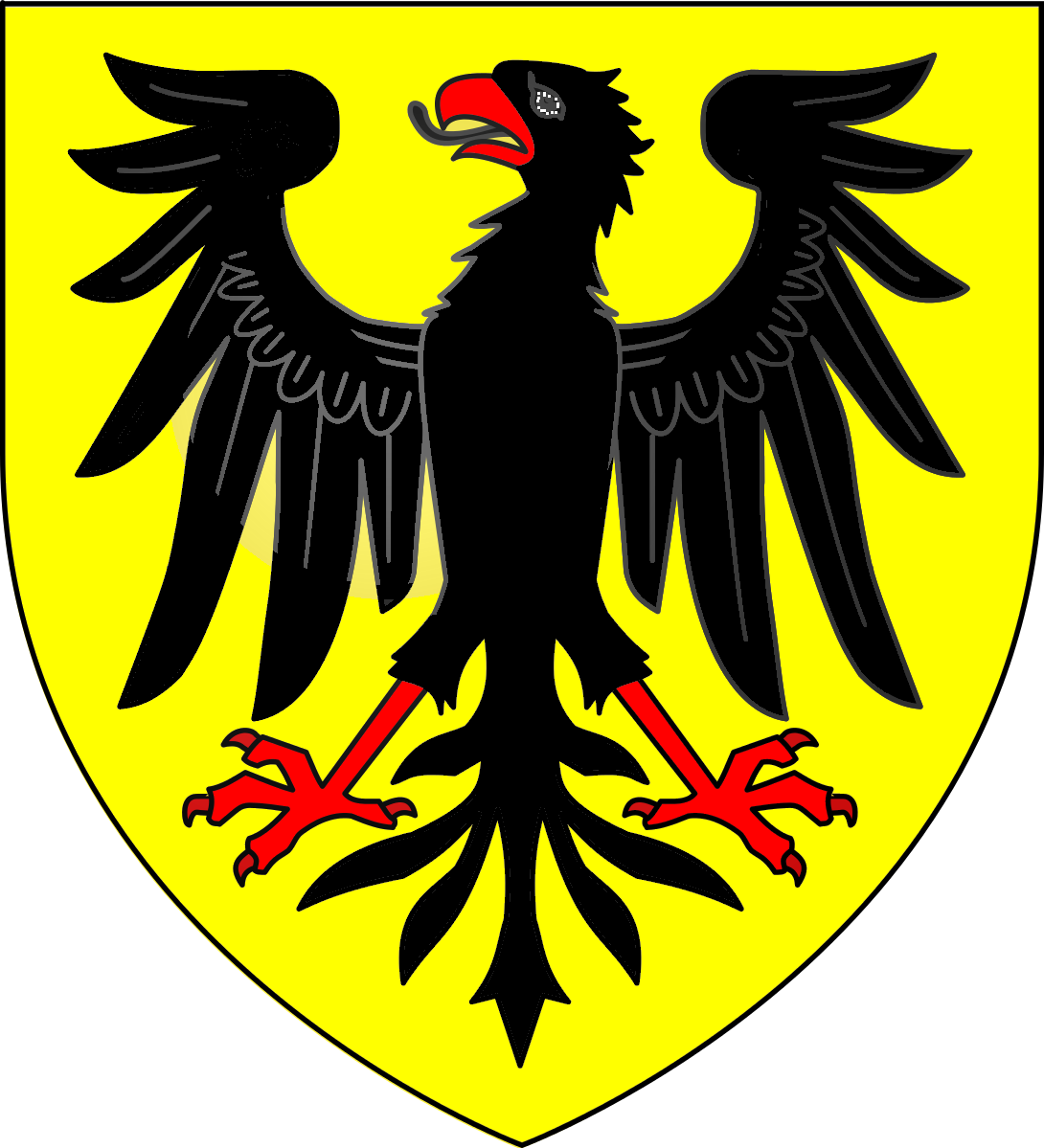 Arms of Temple baronets and Viscount Chobham of Stowe, Buckinghamshire: Or, an eagle displayed sable. Often shown quartering: Argent, two bars sable each charged with three martlets or (Temple)